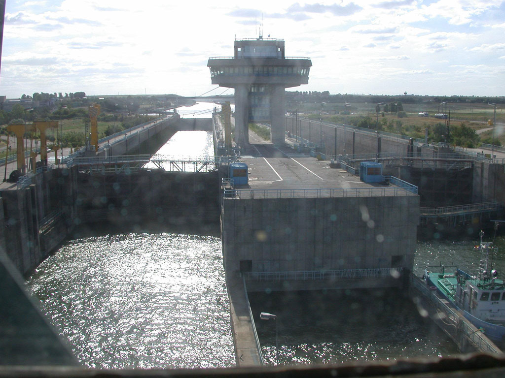 Danube-Black Sea Canal, near Contanta, Romania